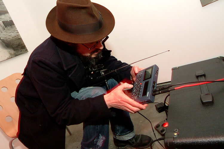 Playing a Yamaha SU10 Sampler. Mr Lana Radio Show Performance